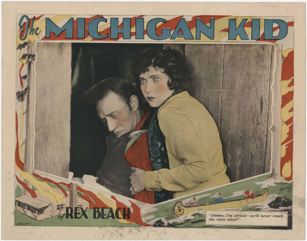 The Michigan Kid (1928). Lobby card for the western film starring Conrad Nagel and Renée Adorée. From the Beinecke Rare Book & Manuscript Library, Yale University.